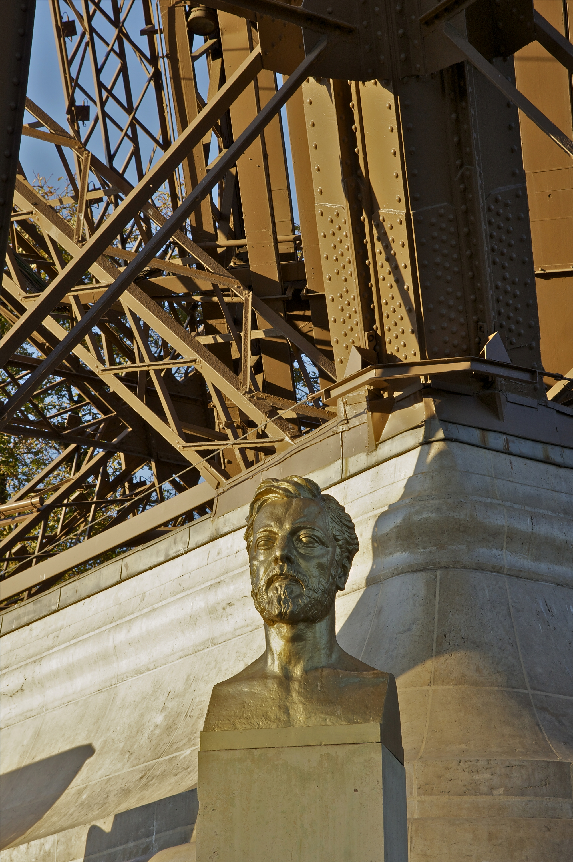 Gilded bronze bust of Gustave Eiffel, by Antoine Bourdelle. One can see behind the basis of the northern pillar of the Tower.